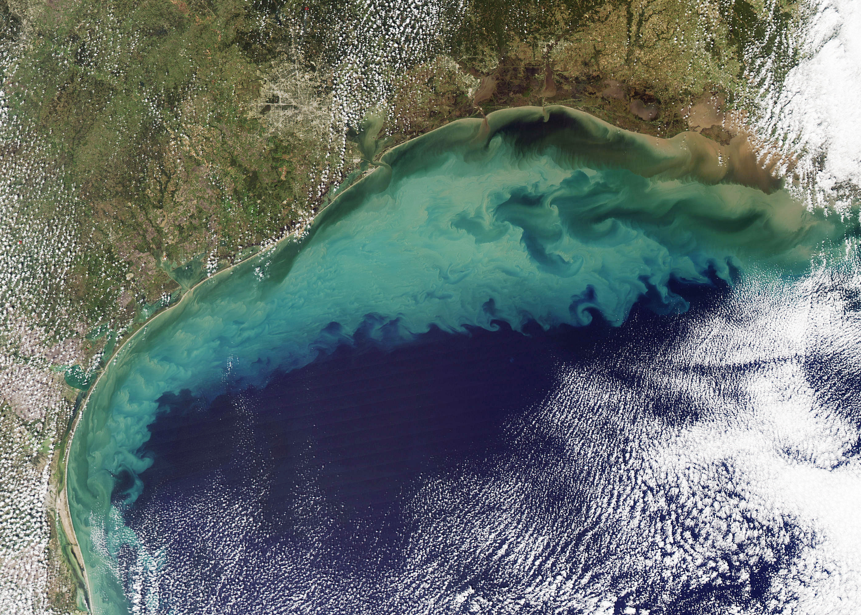 Much of the dirt that colours the water is likely re-suspended sediment dredged up from the sea floor in shallow waters. The tan-green sediment-coloured water transitions to clearer dark blue water near the edge of the continental shelf where the water becomes deeper. The ocean turbulence that brought the sediment to the surface is readily evident in the textured waves and eddies within the tan and green waters. Tropical Storm Ida had come ashore over Alabama and Florida, immediately east of the area shown here, a few hours before the image was acquired. The storm’s wind and waves may have churned up waters farther west. A second source of sediment is visible along the shore. Many rivers, including the Mississippi River, drain into the Gulf of Mexico in this region. The river plumes are dark brown that fade to tan and green as the sediment dissipates. Rivers throughout the region ran high, likely carrying more sediment than usual into the Gulf. The rivers also carry nutrients like iron from soil and nitrogen from fertilizers. These nutrients fuel the growth of phytoplankton, tiny, plant-like organisms that grow in the ocean surface waters. Phytoplankton blooms colour the ocean blue and green and may be contributing to the colour seen here.